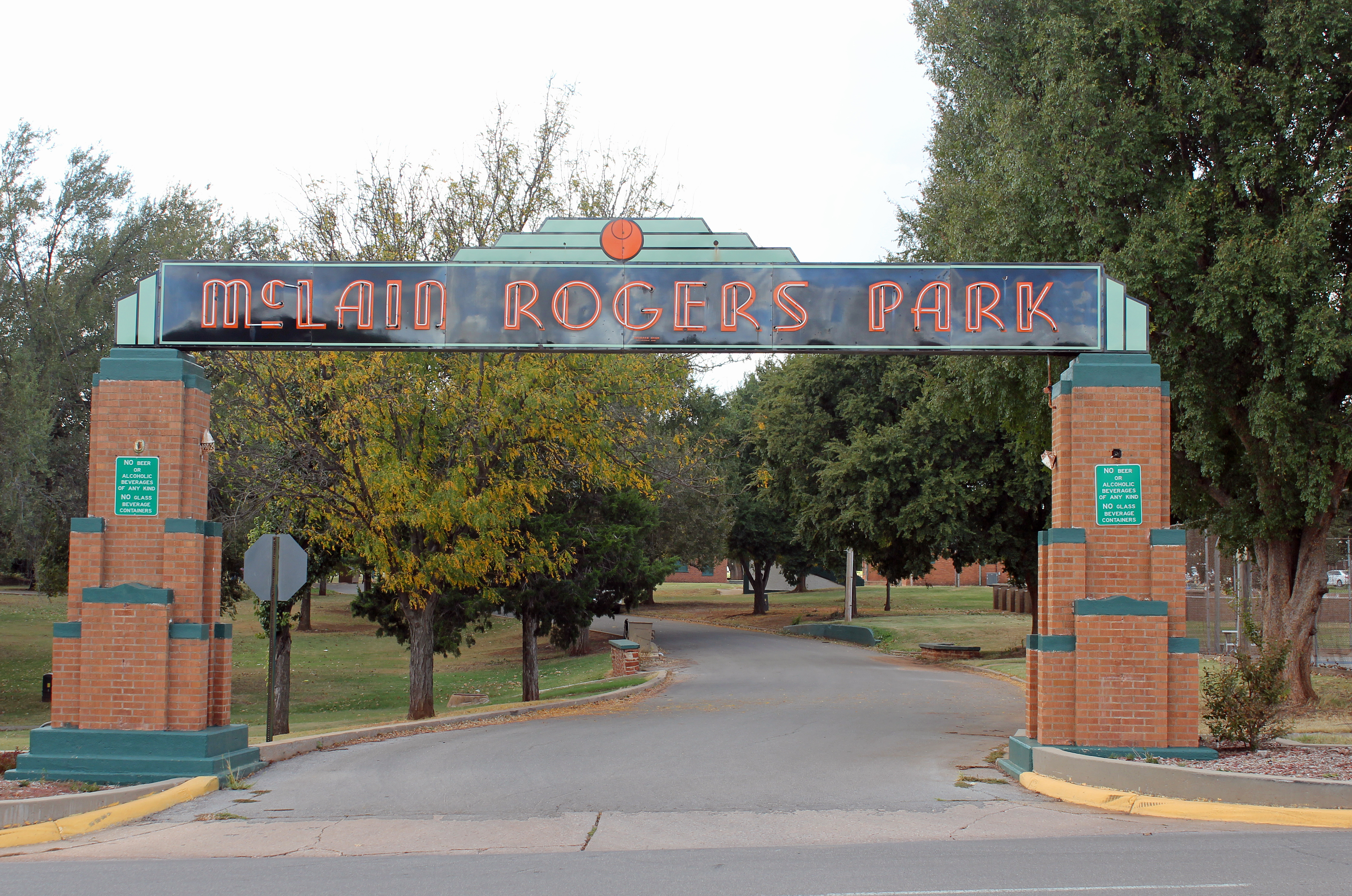 McLain Rogers Park, located at the Junction of South 10th Street and Bess Rogers Drive in Clinton, Oklahoma. The property is listed on the National Register of Historic Places.